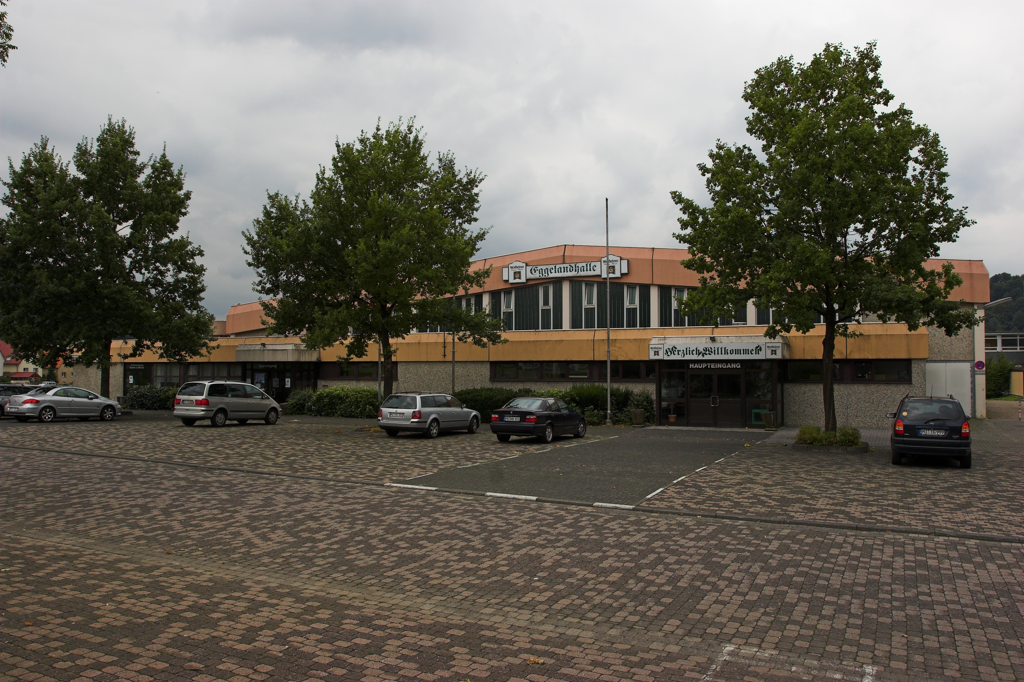 Eggelandhalle in Altenbeken: public hall for sport events and festivities